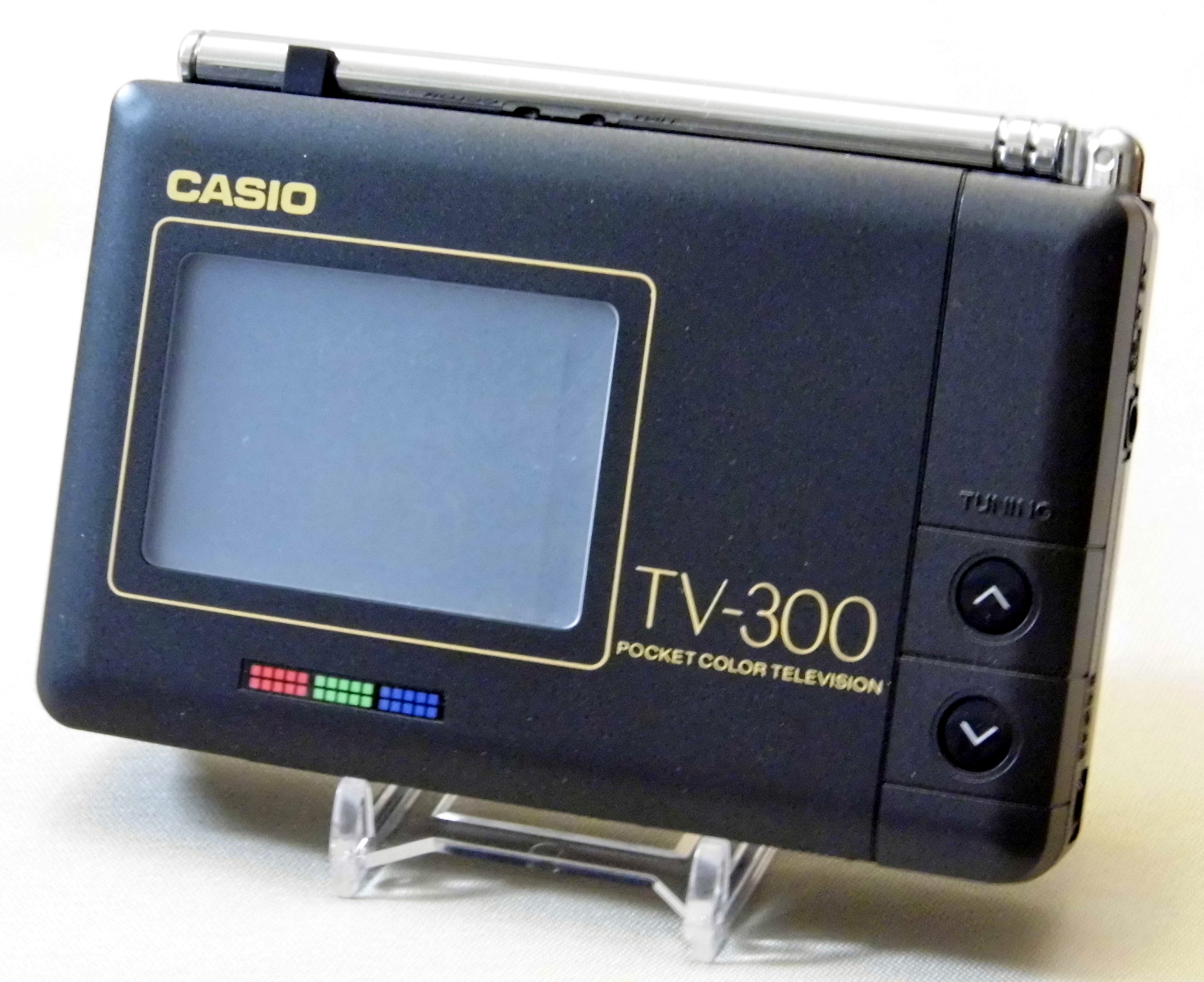 Casio Pocket Color Television TV-300